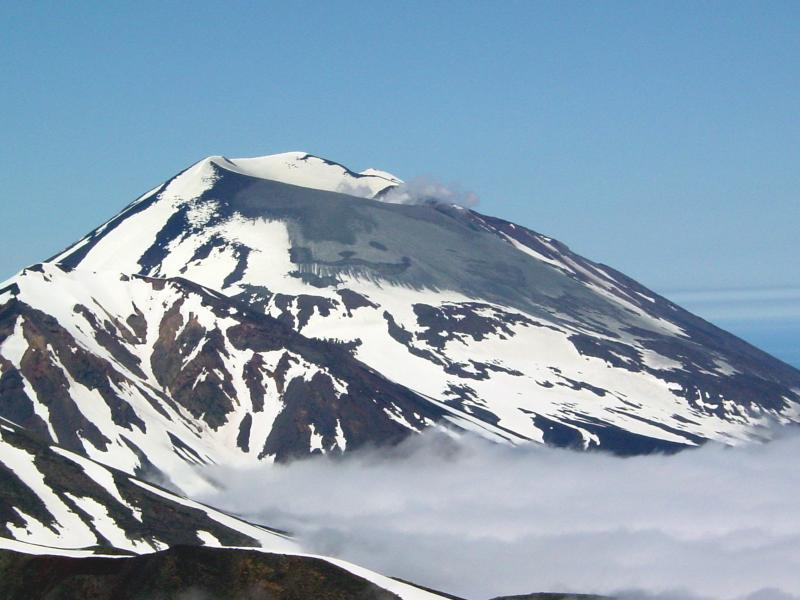 Debris mantling the upper slopes of Korovin's active south crater. View is to the north-northwest.